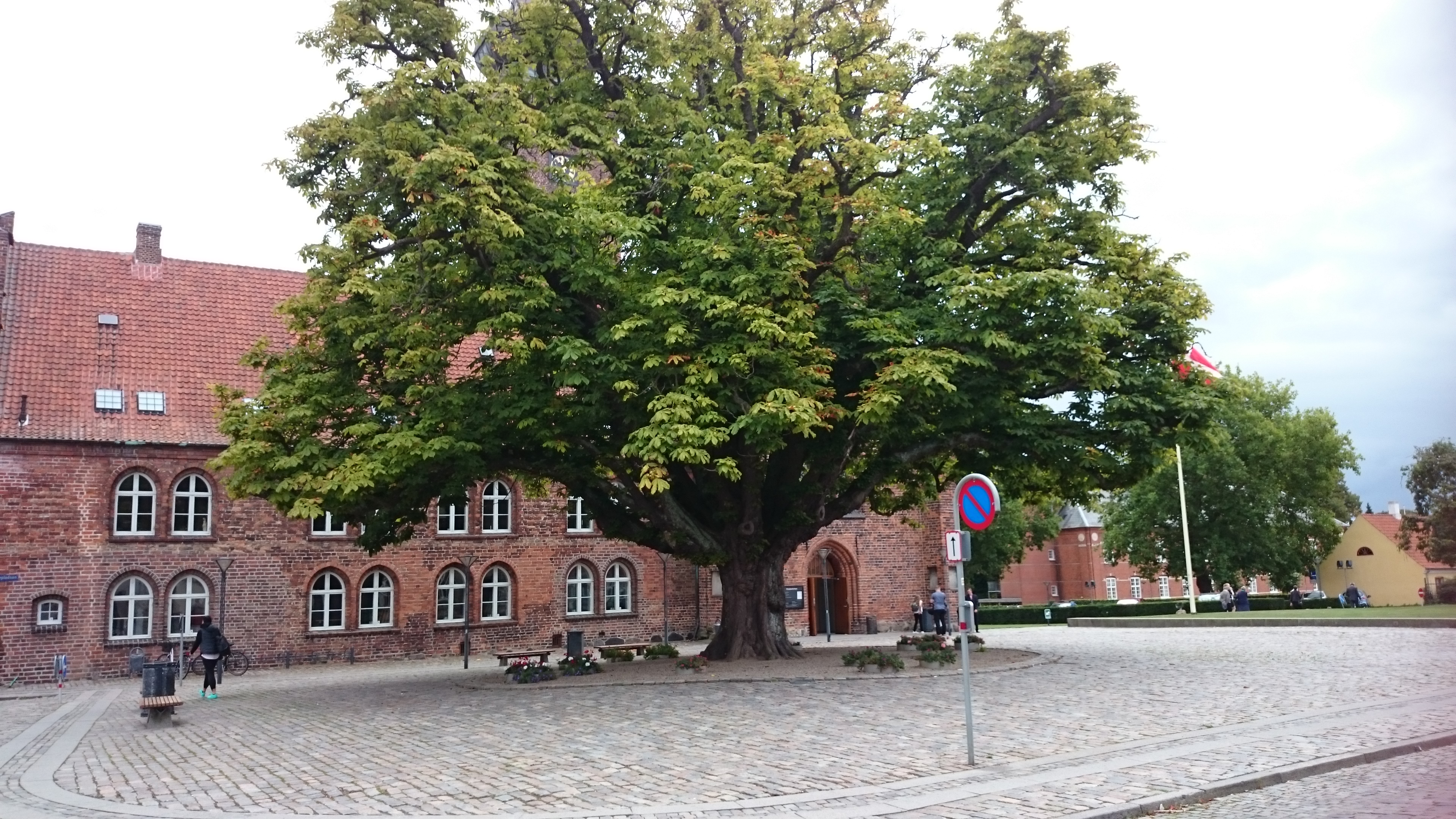 The square in front of the Abbey Church in Nykøbing Falster, Denmark.